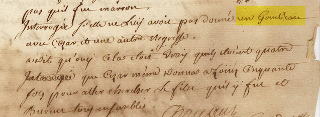 This is the earliest known reference to "gumbo" and is found in the interrogation records of a slave, New Orleans, September 1764.